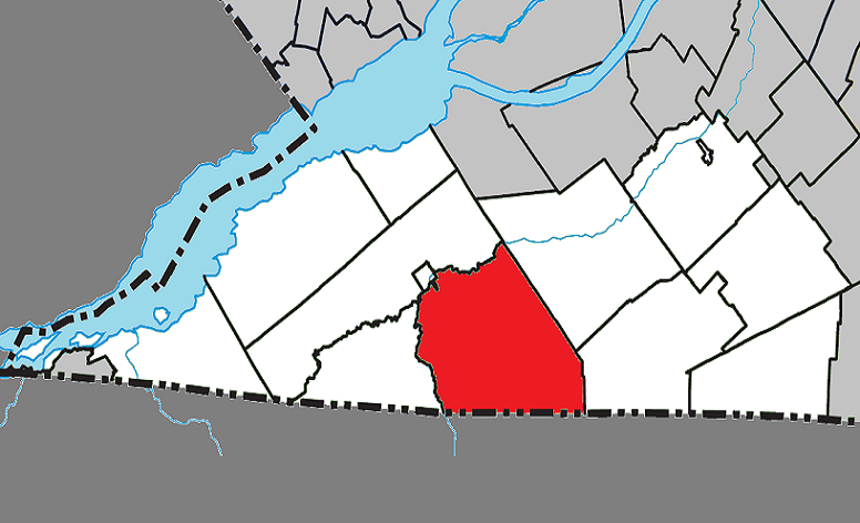 Location of Hinchinbrooke, Quebec within Le Haut-Saint-Laurent Regional County Municipality.